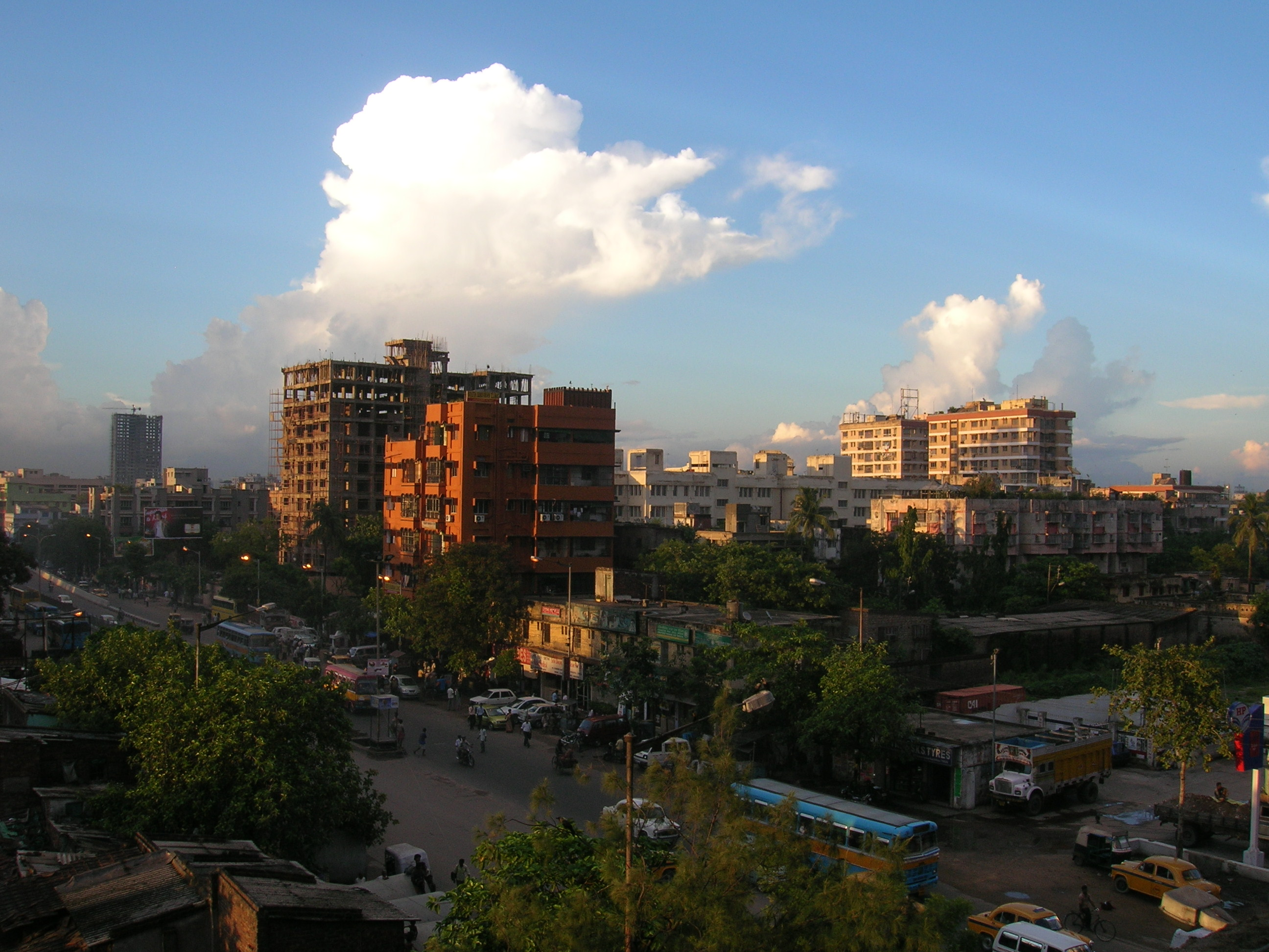 Behala downtown